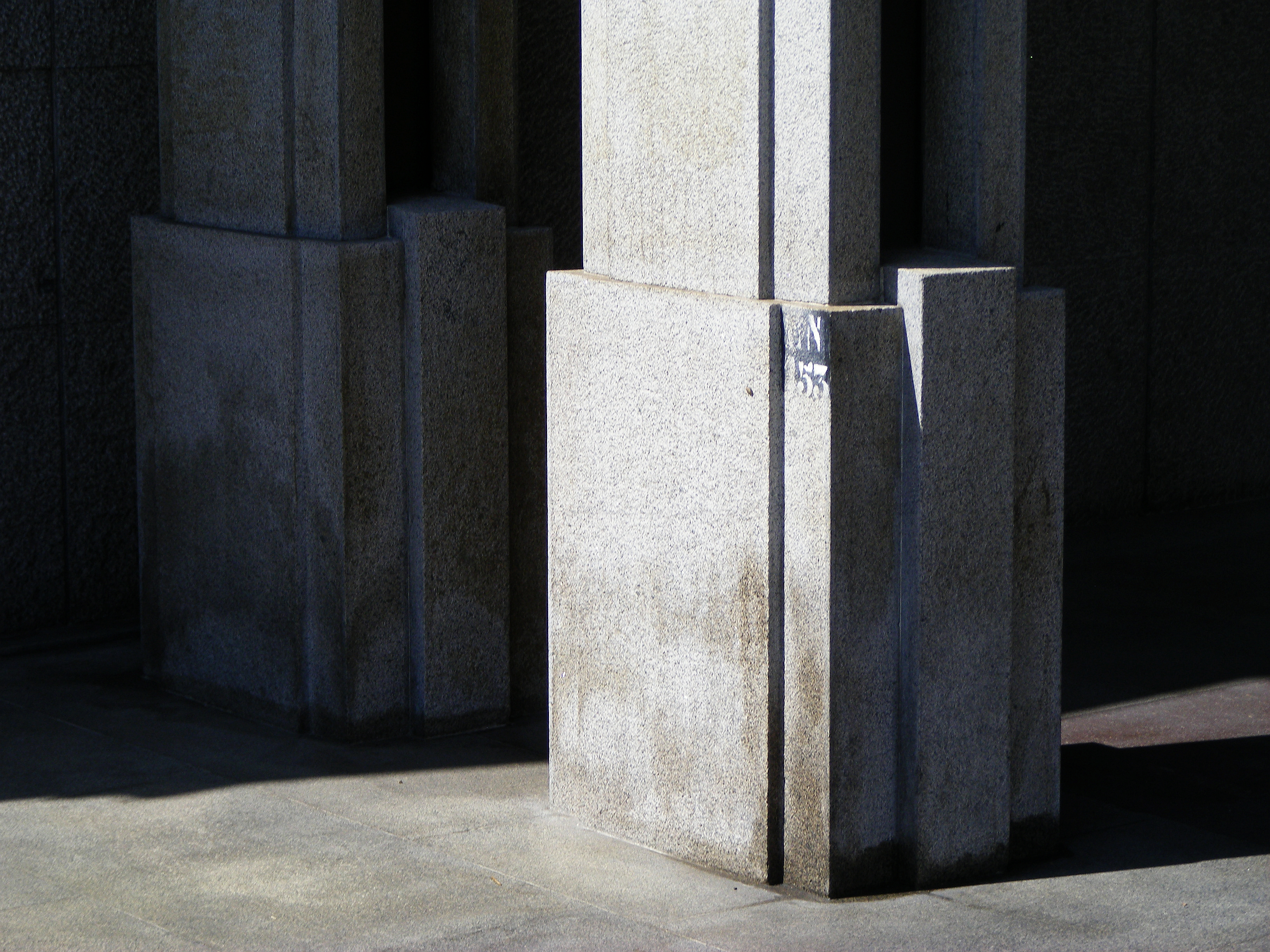 RAI headquarters (Turin)